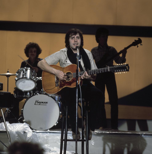 Pierre Rapsat at a rehearsal for the Eurovision Song Contest 1976.